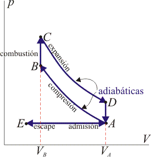 Scheme (in Spanish) of the Otto cycle